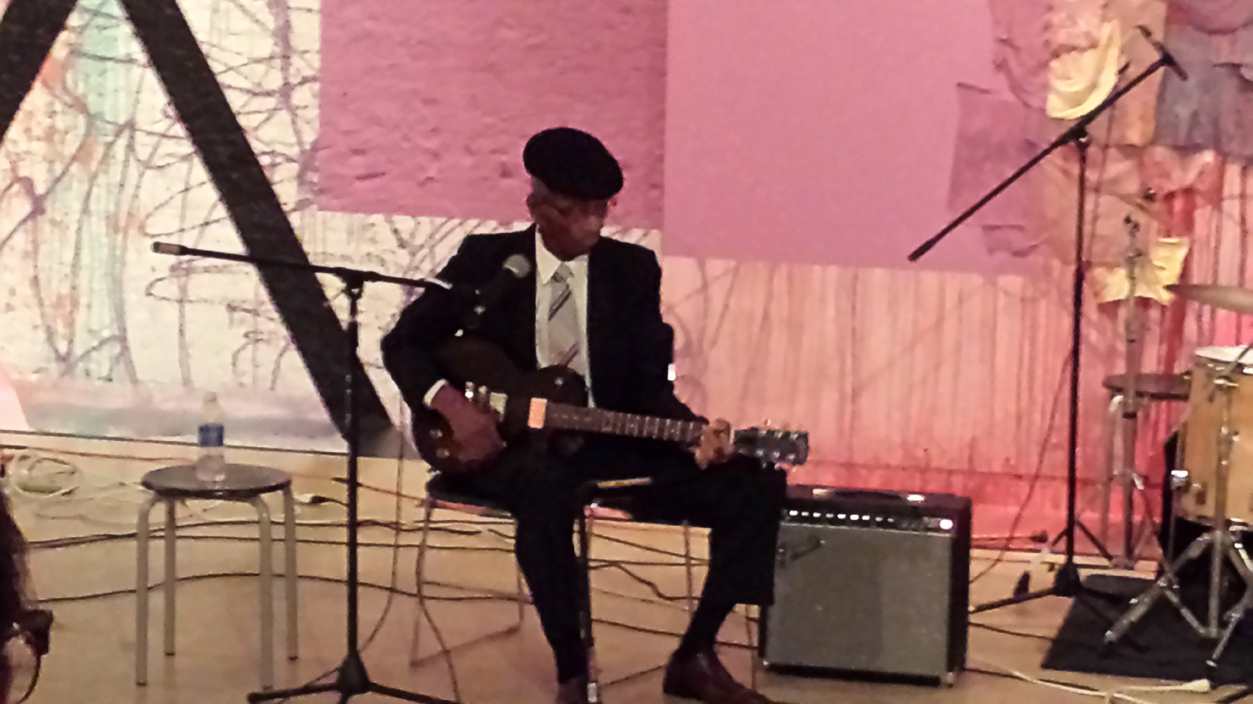 John Dee Holeman First Night Raleigh NC 201403